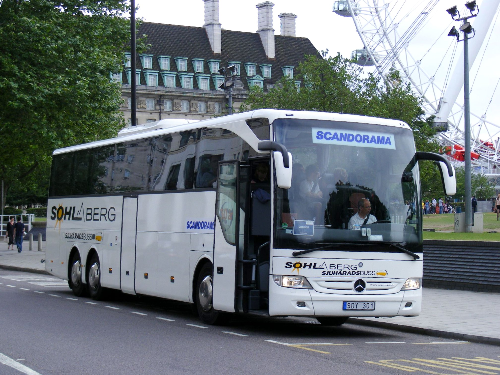 Sohlberg Mercedes Benz Tourismo , Sweden SDY301 A list of Sohlberg coaches may be found on this thread Owner Sohlberg Buss AB, Svenljunga I think Sjuhäradsbuss is an associated company or a firm which was taken over.